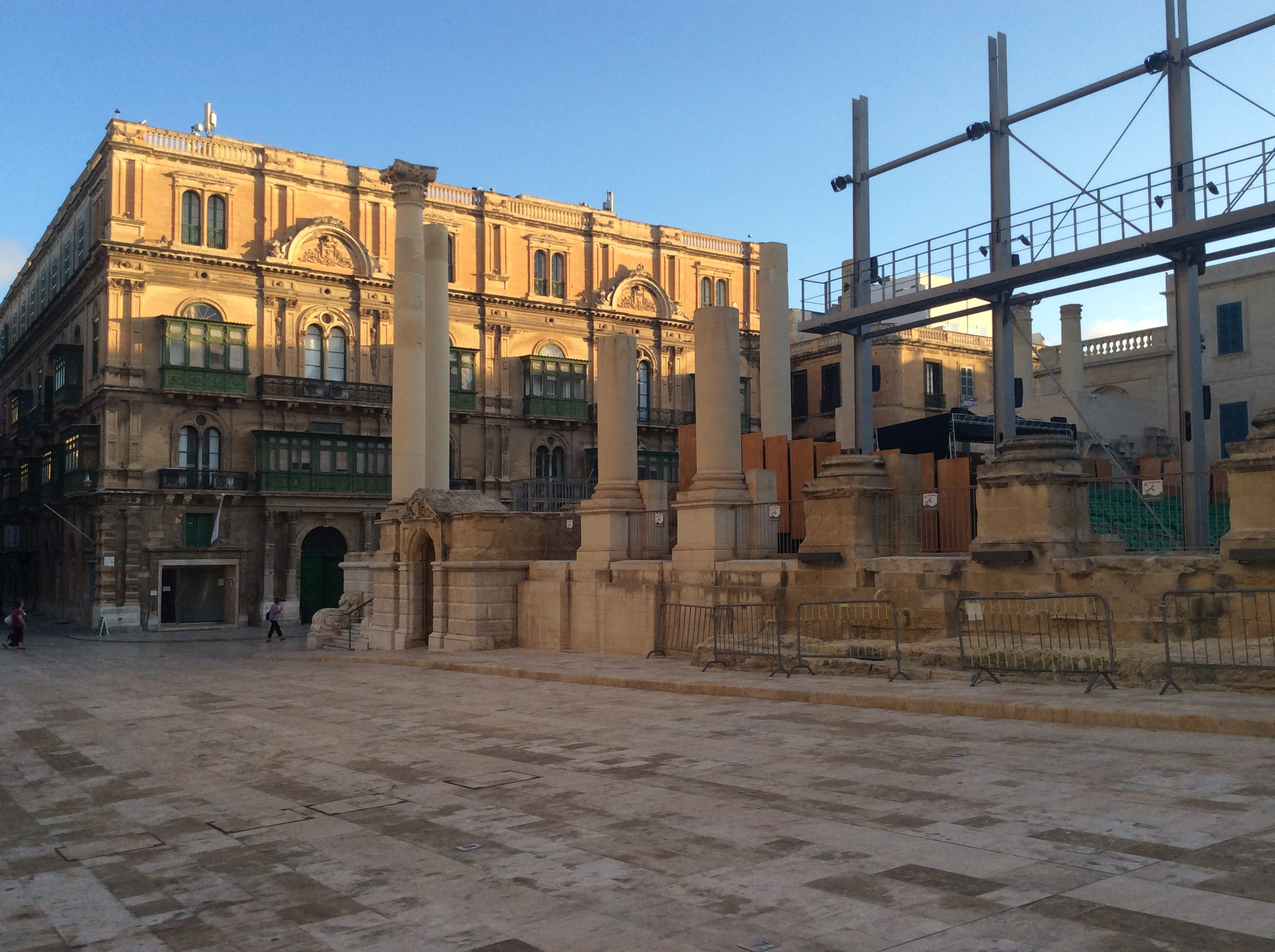 Maltese Parliament house and Pjazza Teatru Rjal